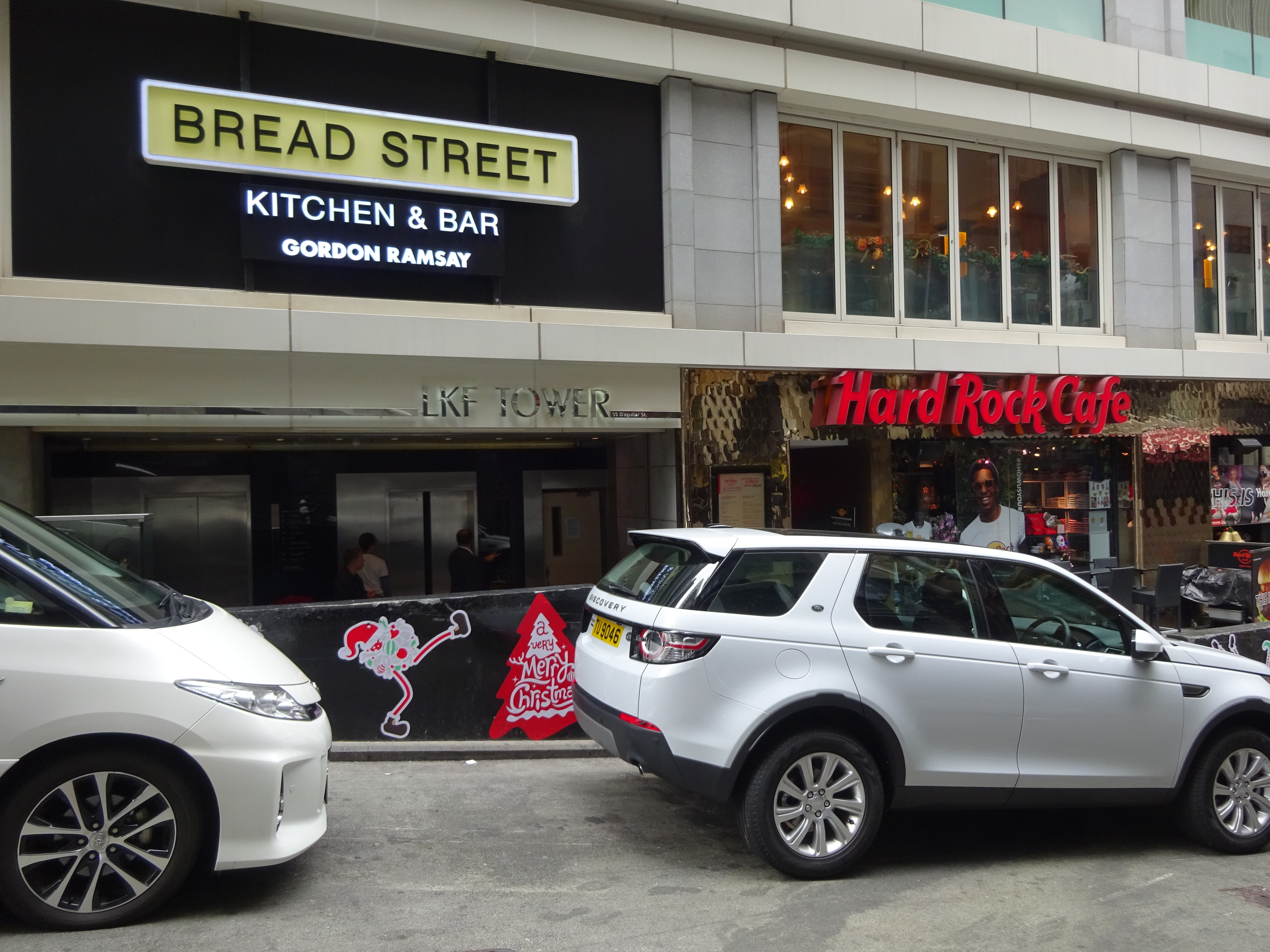 Hard Rock Cafe, LKF Tower, D'Aguilar Street, Lan Kwai Fong, Central, Hong Kong